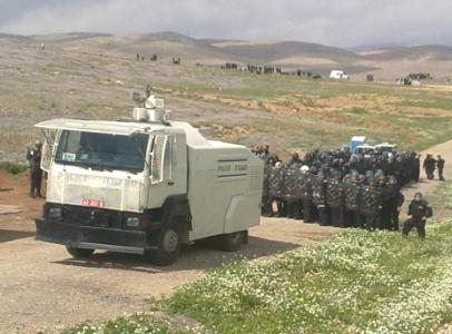 a Water cannon of the israeli police